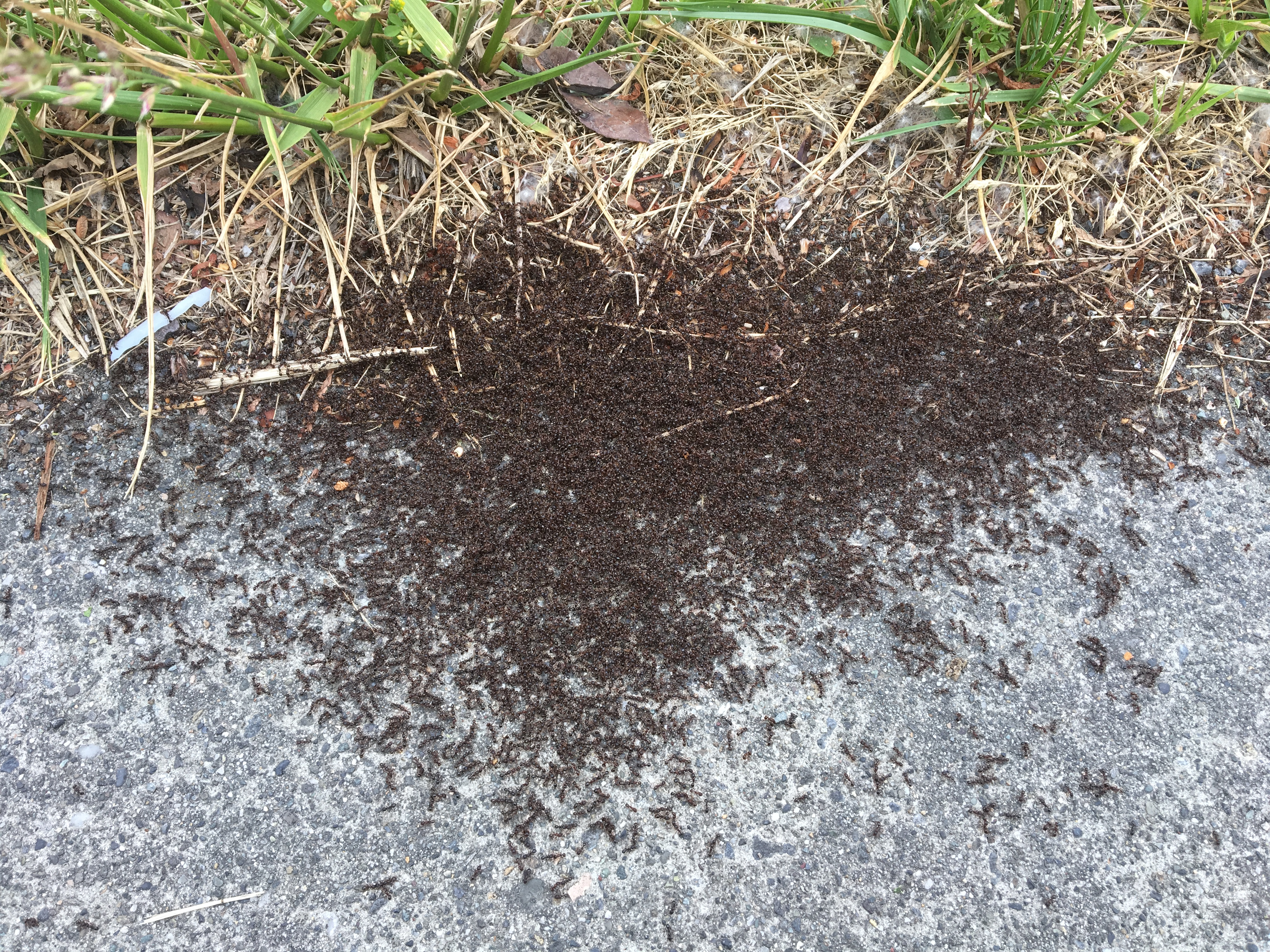 Two colonies of pavement ants (Tetramorium caespitum?) battling for territory on a sidewalk in Mount Vernon, Washington state, US in May. Tetramorium ants aggressively defend a territory, and in spring when new colonies are establishing their boundaries large battles like this may be seen on sidewalks, leaving thousands of ants dead. On magnification, many of the worker ants can be seen in pairs head to head, with their mandibles locked on the heads of their enemy. There is a line of ants leaving to the left along the sidewalk edge, so presumably one of the nests is in that direction. When I returned to the spot a few hours later, no ants could be seen.